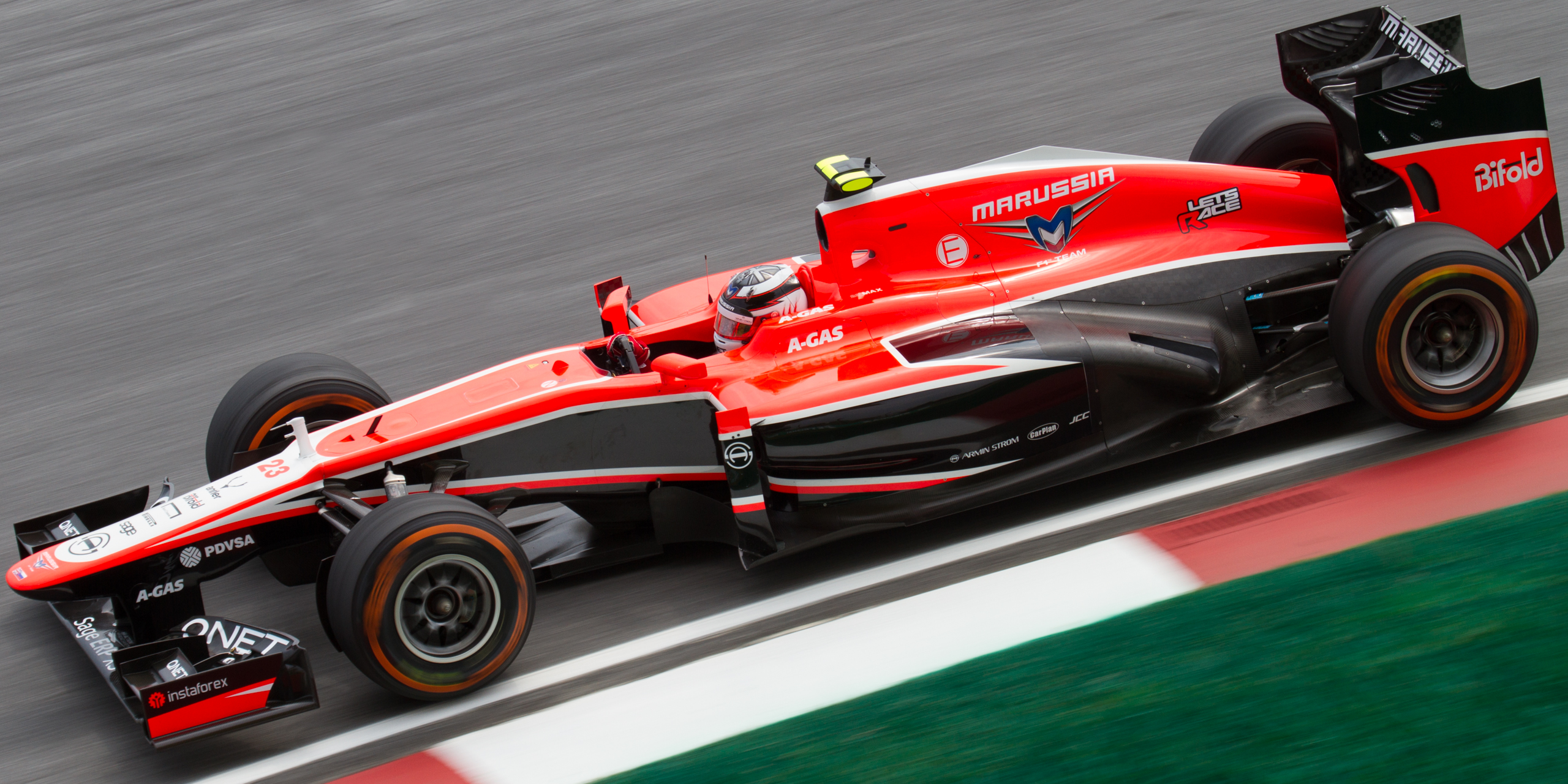 Formula One 2013 Rd.2 Malaysian GP: Max Chilton (Marussia) during the first practice session on Friday.